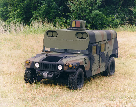 LOSAT Loadout on HMMWV